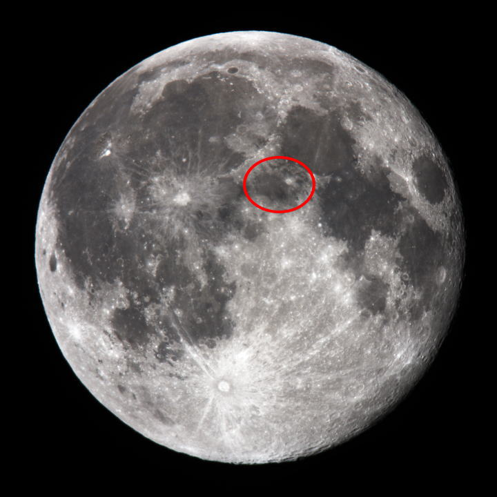 The location of Mare Vaporum, one of the Lunar geographical features.